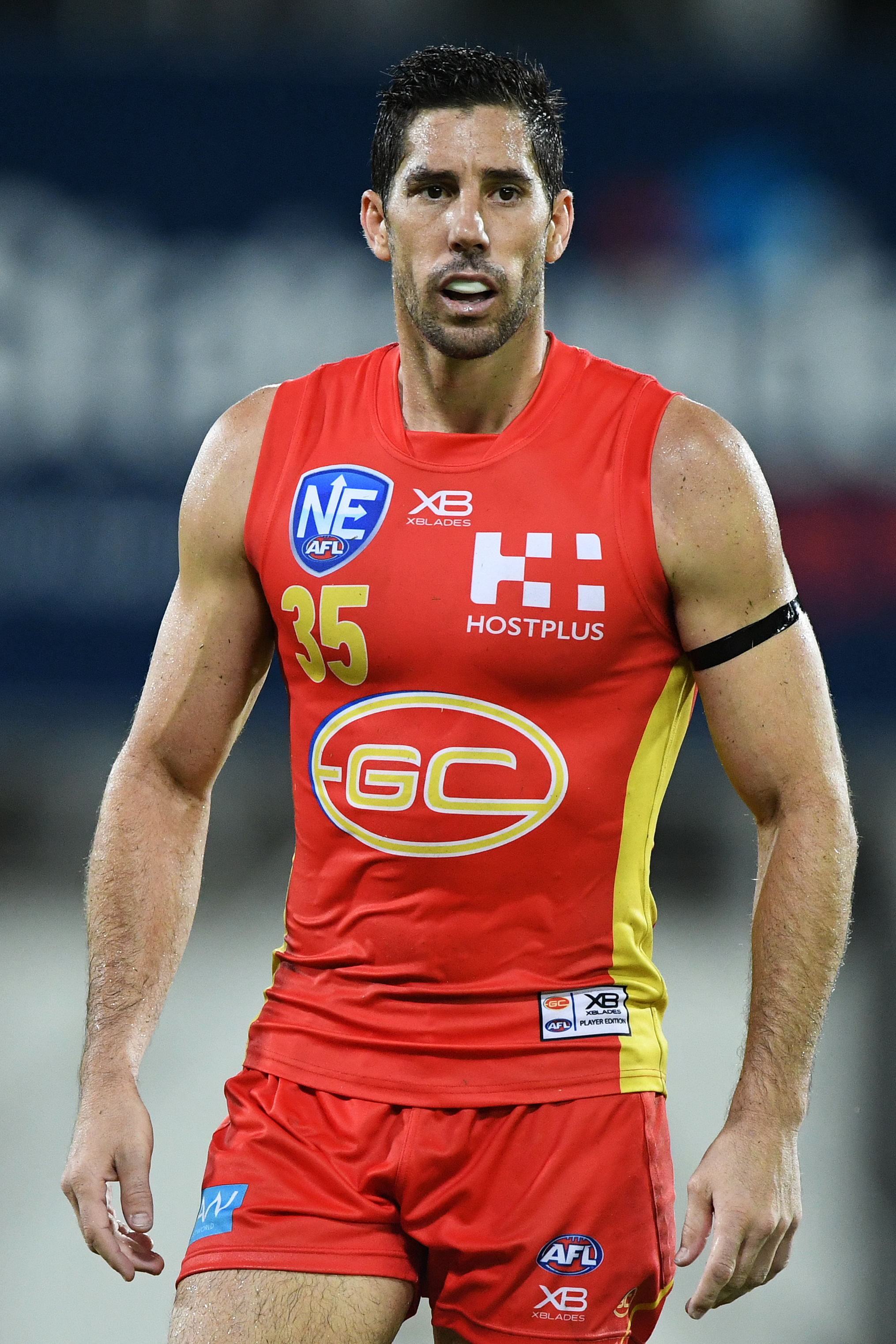 Michael Rischitelli of Gold Coast during the 2019 NEAFL round 5 match between NT Thunder and Gold Coast at TIO Stadium on Saturday, 4 May 2019 in Darwin, Australia.